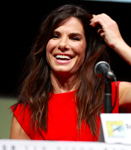 Sandra Bullock speaking at the 2013 San Diego Comic Con International, for "Gravity", at the San Diego Convention Center in San Diego, California.